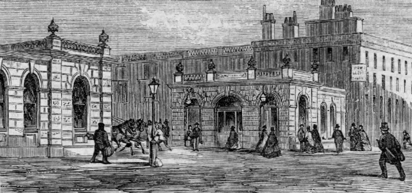 Exterior view of Baker Street Metropolitan Railway station, 1862